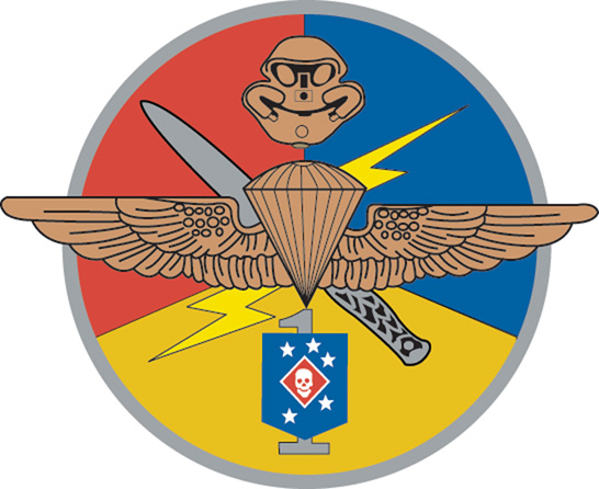 MCSOCOM Detachment One logo